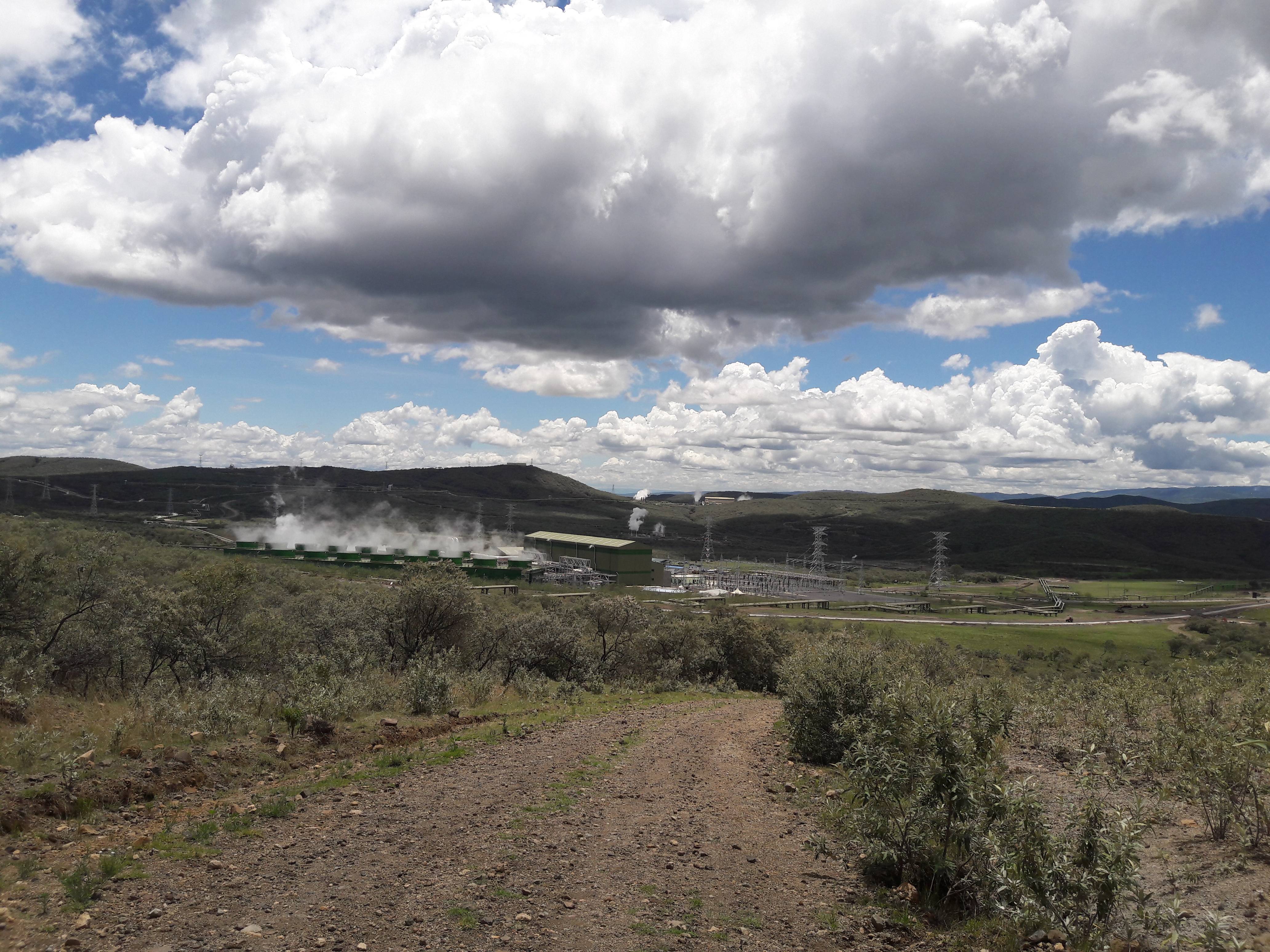 Olkaria V Geothermal Power Station, located within Hell's Gate National Park.